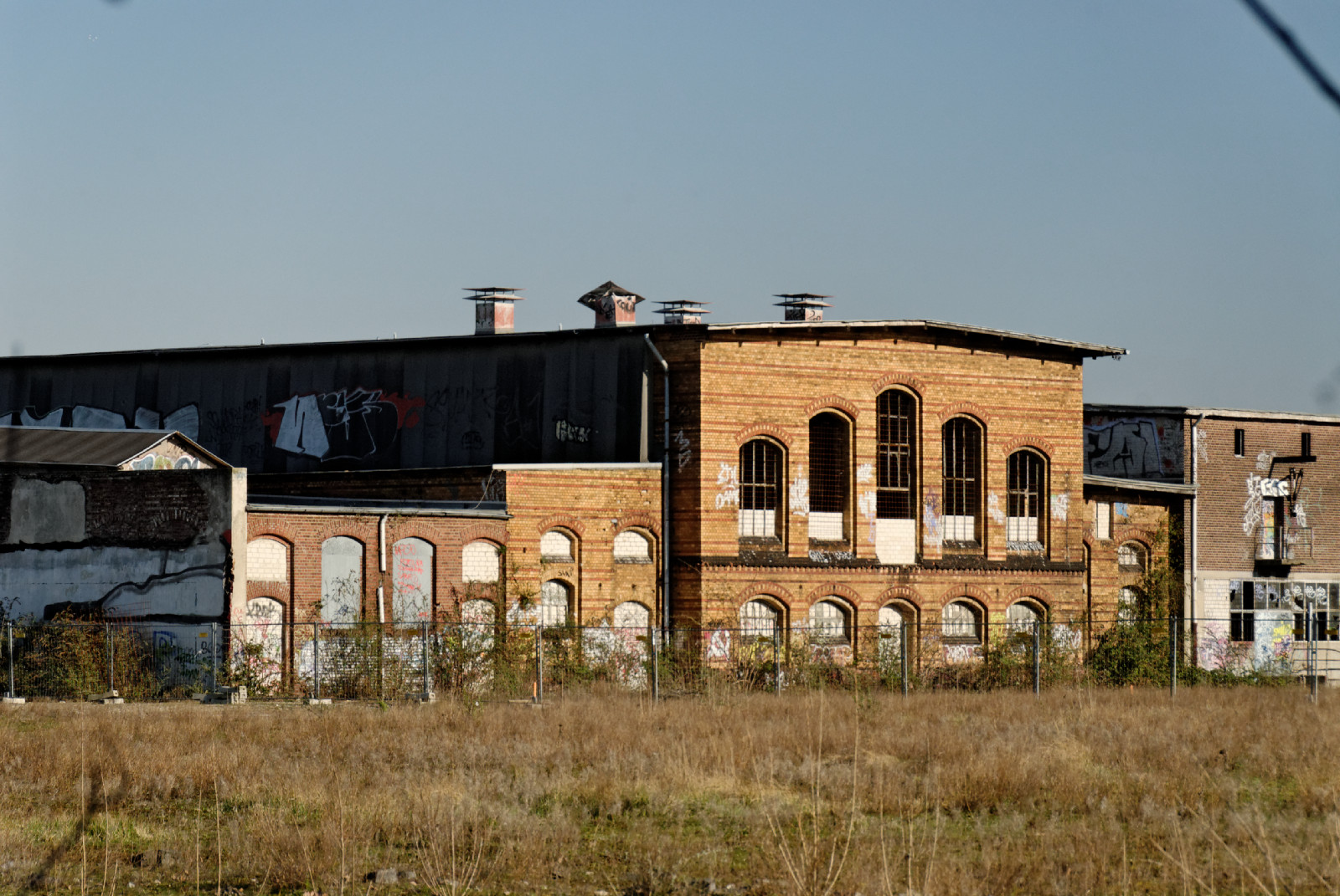 Building Rather Straße 25 in Düsseldorf-Derendorf, Germany